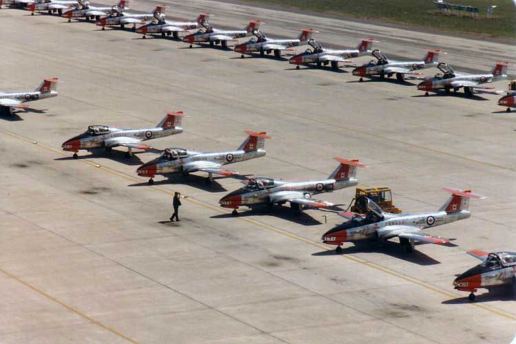 I took this photo of the CT-114 Tutor parking line at CFB Moose Jaw in the spring of 1982